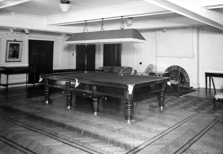 View of Government House, Billiard Room. (Fernberg Road, Paddington. Alternative name is Fernberg.)